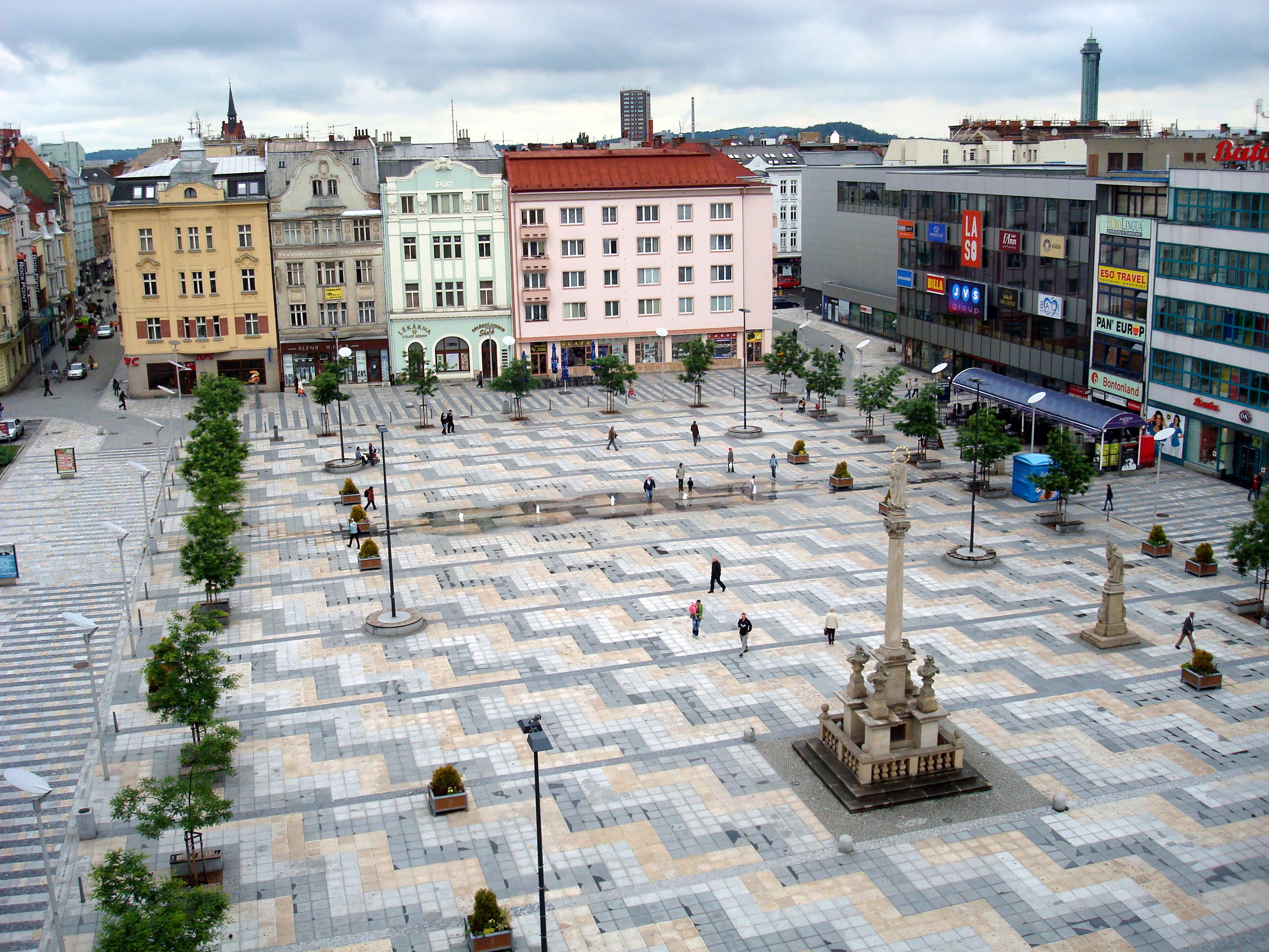 Masaryk Square in Ostrava, Czech Republic